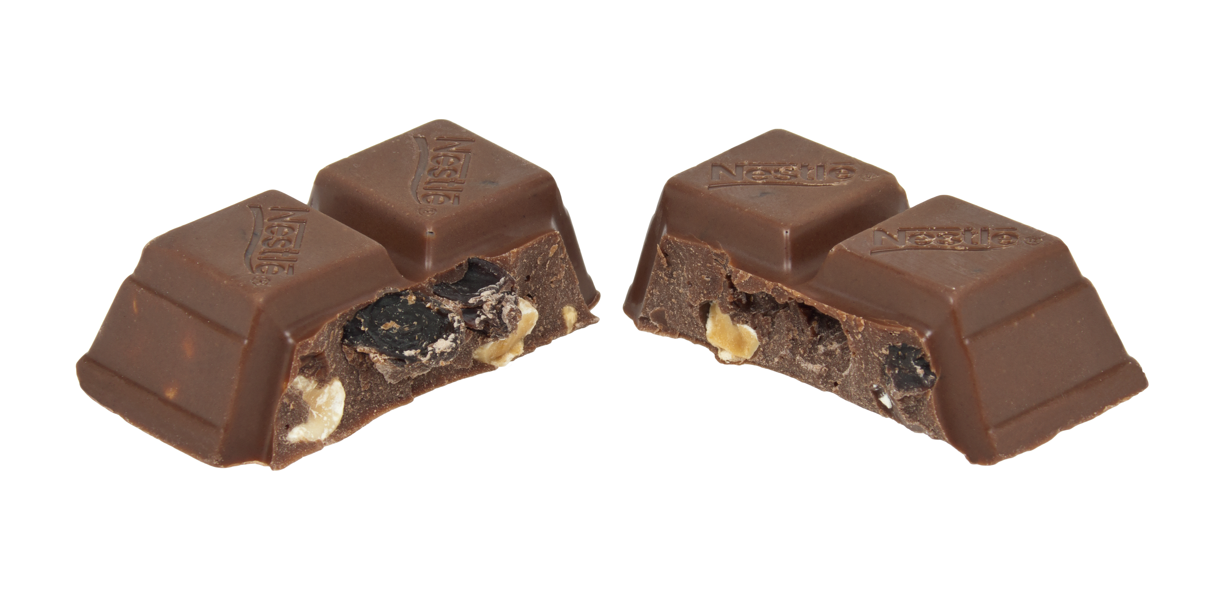 A Nestle Chunky, broken in half. A milk chocolate square with peanuts and raisins.